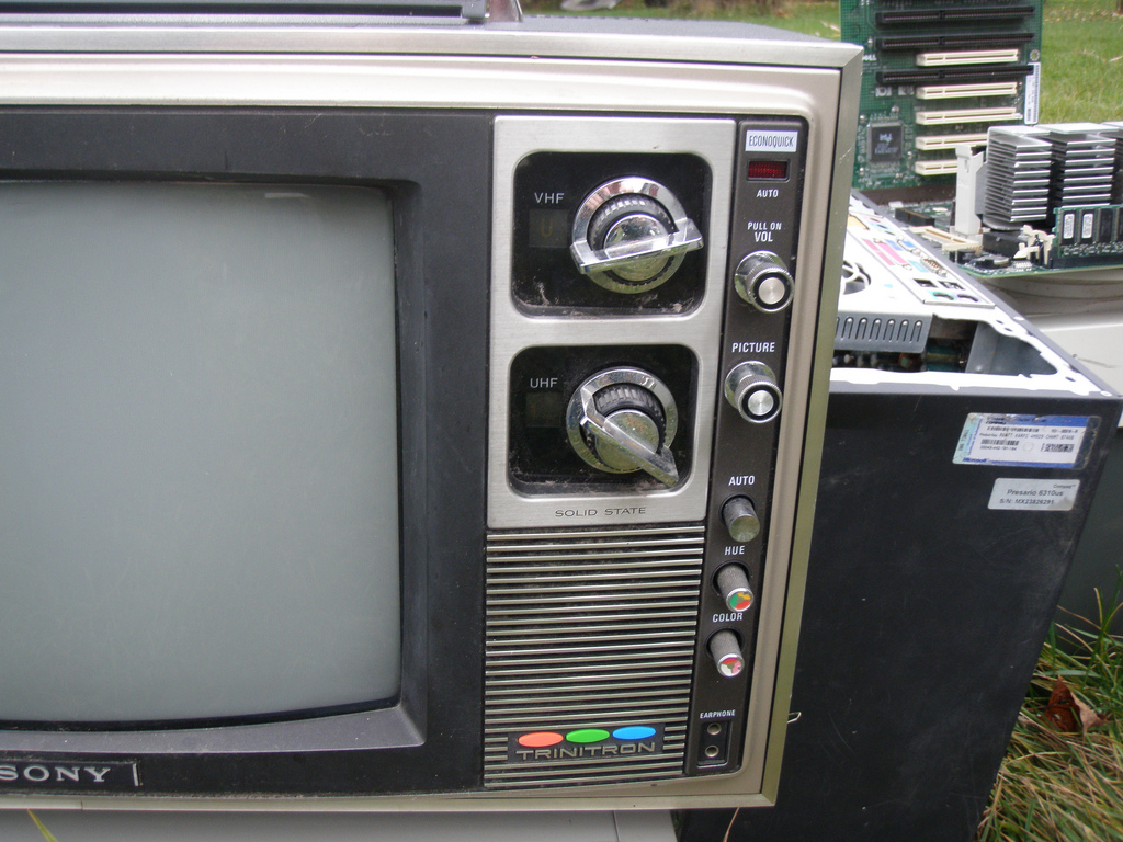 Sony Trinitron TV